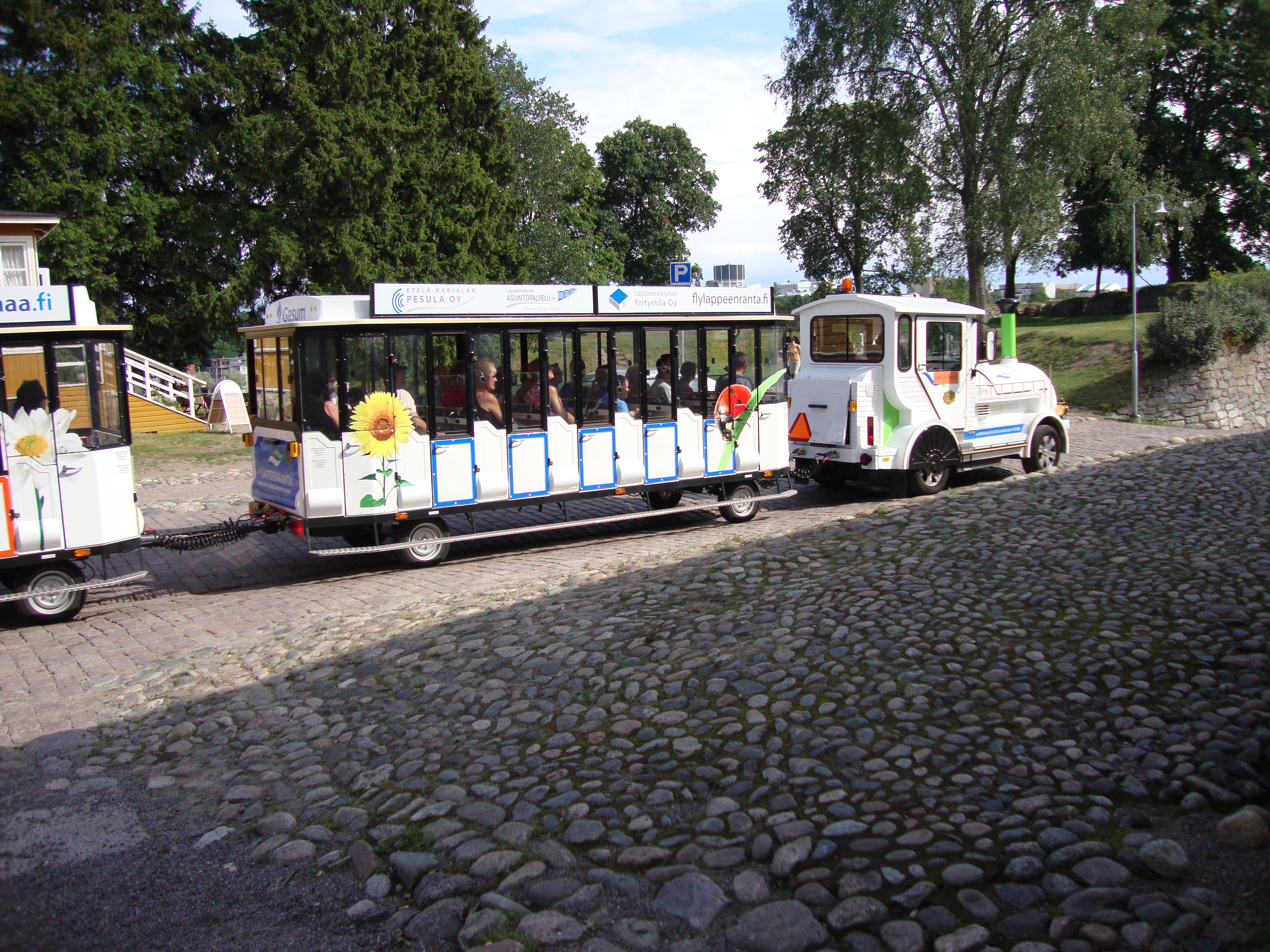 Trackless train on Kristiinankatu street in Lappeenranta, Finland